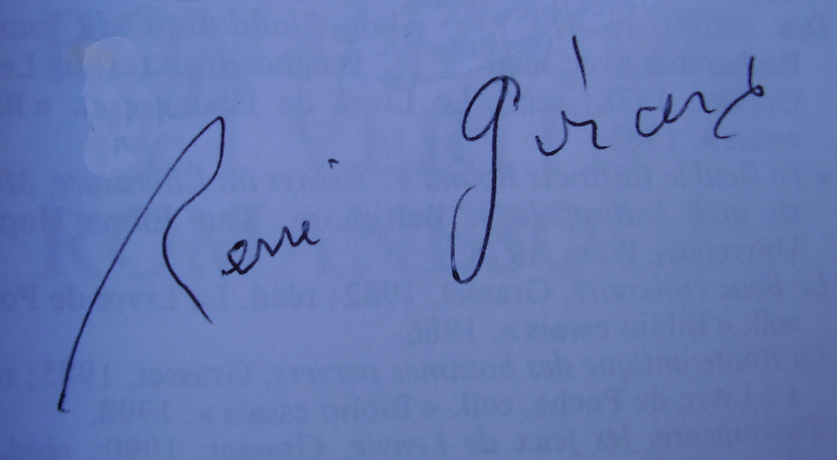 Signature of René Girard.